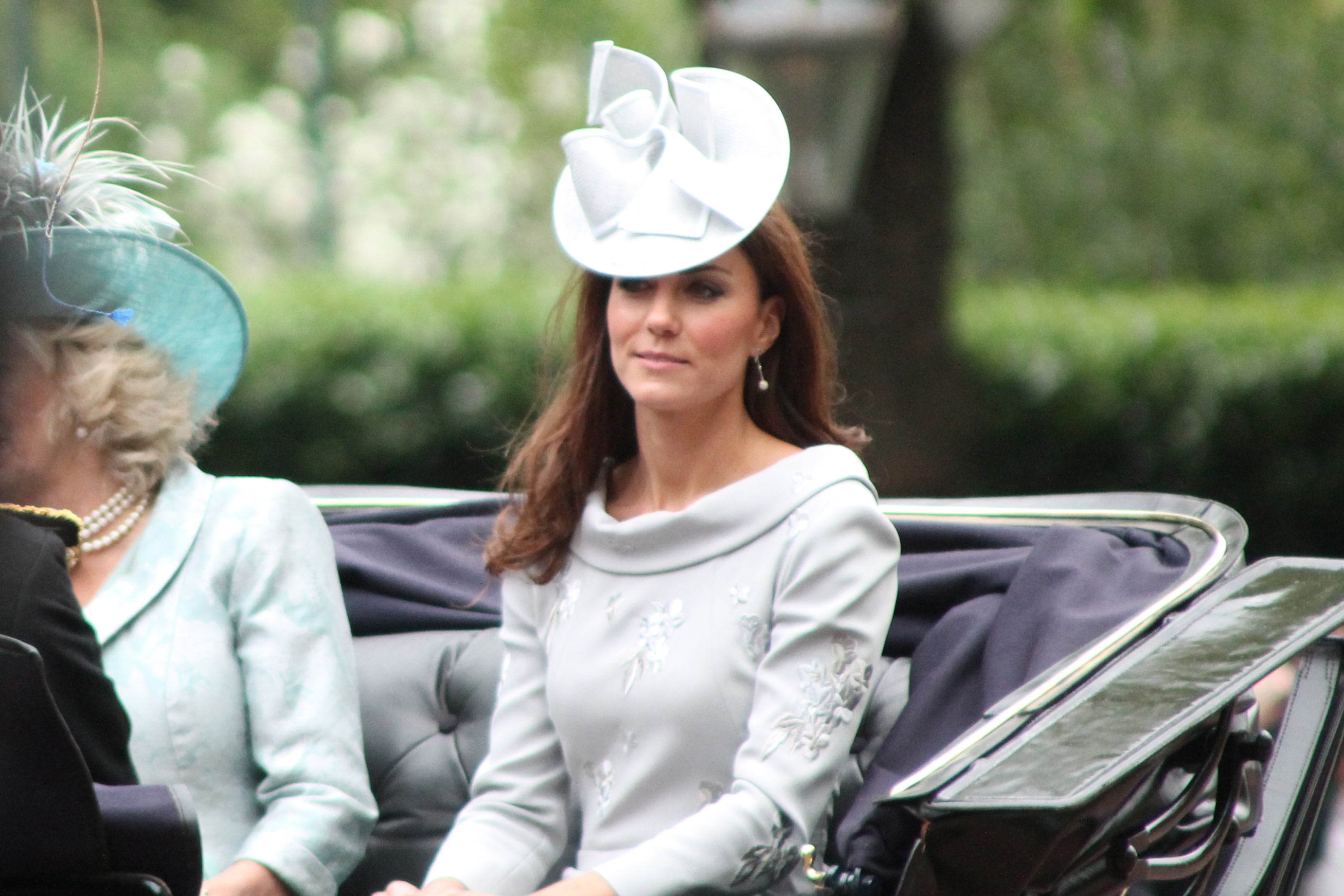 Trooping the Colour procession; The Duchess of Cambridge